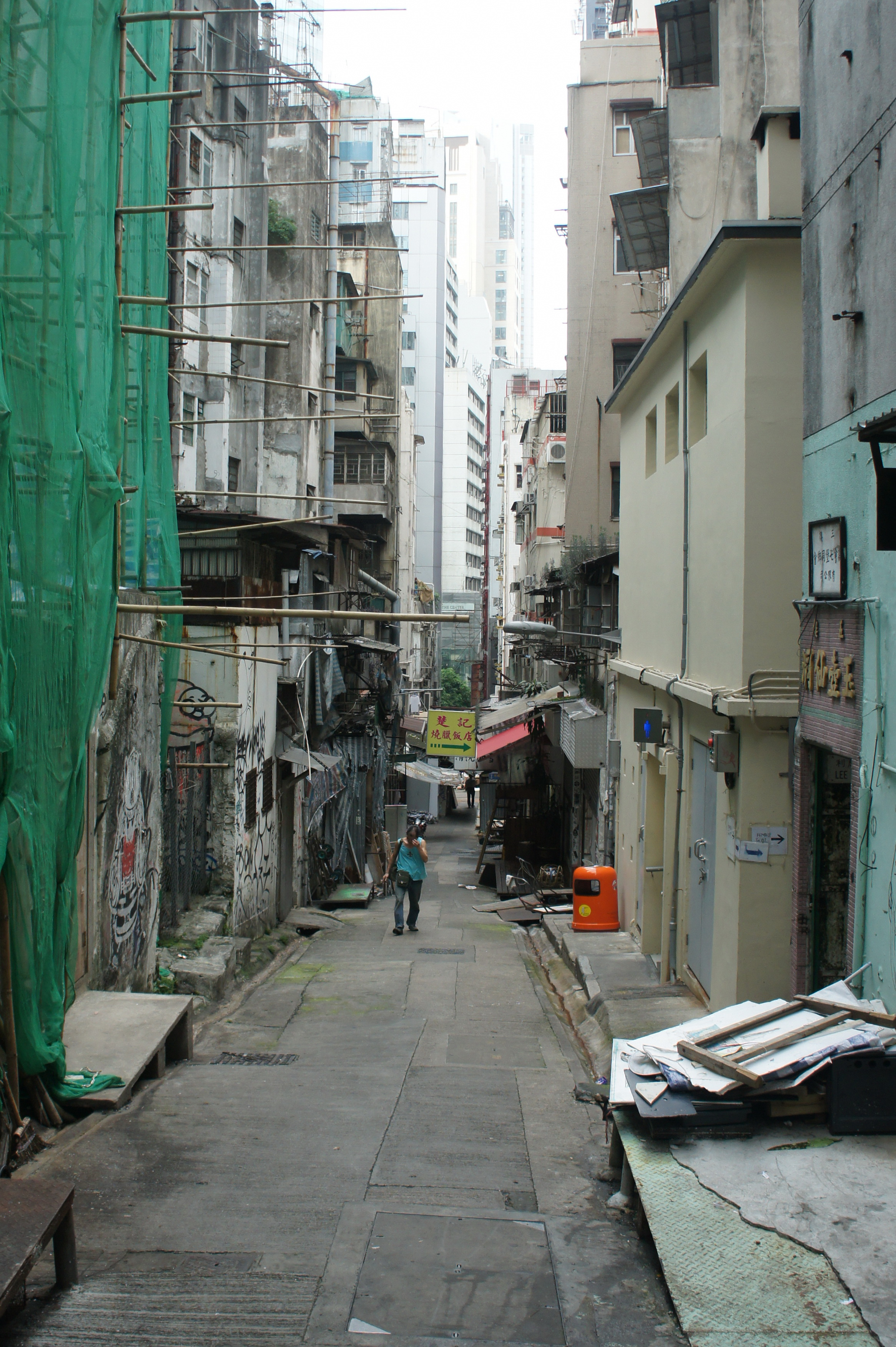 Gutzlaff Street, Central, Hong Kong. Looking north east from Gage Street.